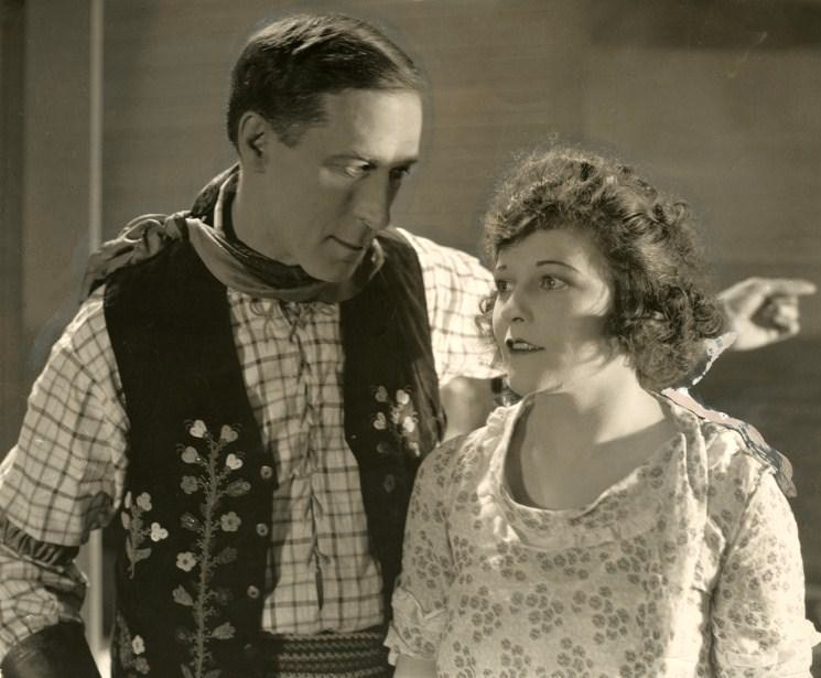 William S. Hart and Mary Thurman in the American western film Sand! (1920) - publicity still (original image damaged, modified and cropped)